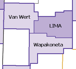 Images and information taken from the US Census here: [1] and here: [2].